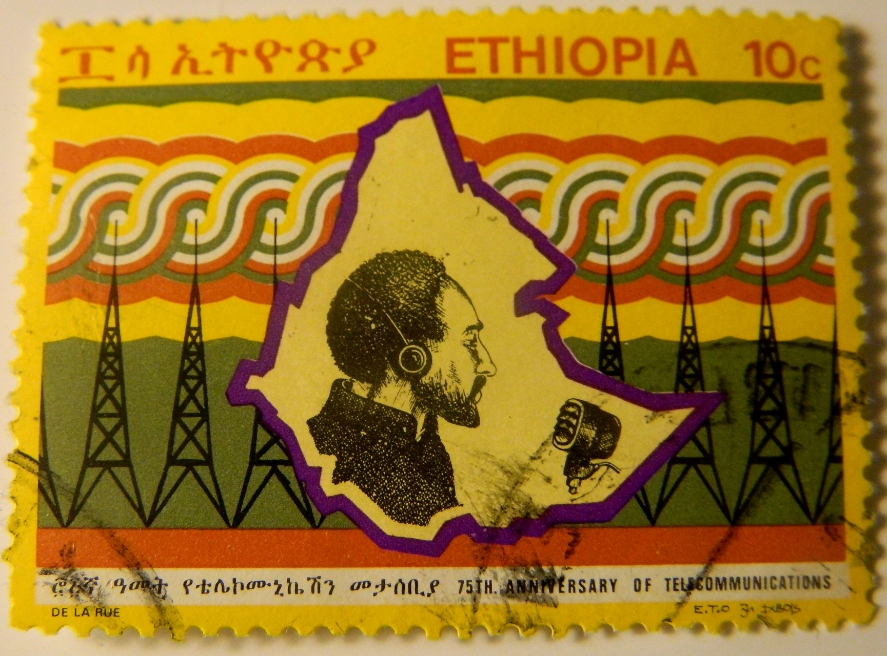 Emperor Haile Selassie I speaking on the radio which linked all the Empire in 1933. Stamp published on November 2nd, 1971 to commemorate the 75th anniversary of the first telephone call between Emperor Menelik II and Ras Makonnen in Harrar in 1897.